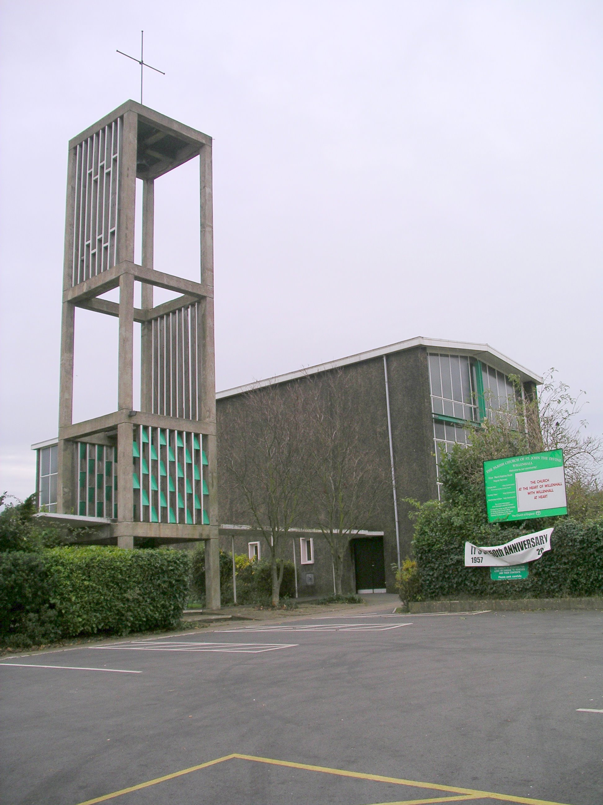 Parish church of St John the Divine, Robin Hood Road, Willenhall, Coventry, England